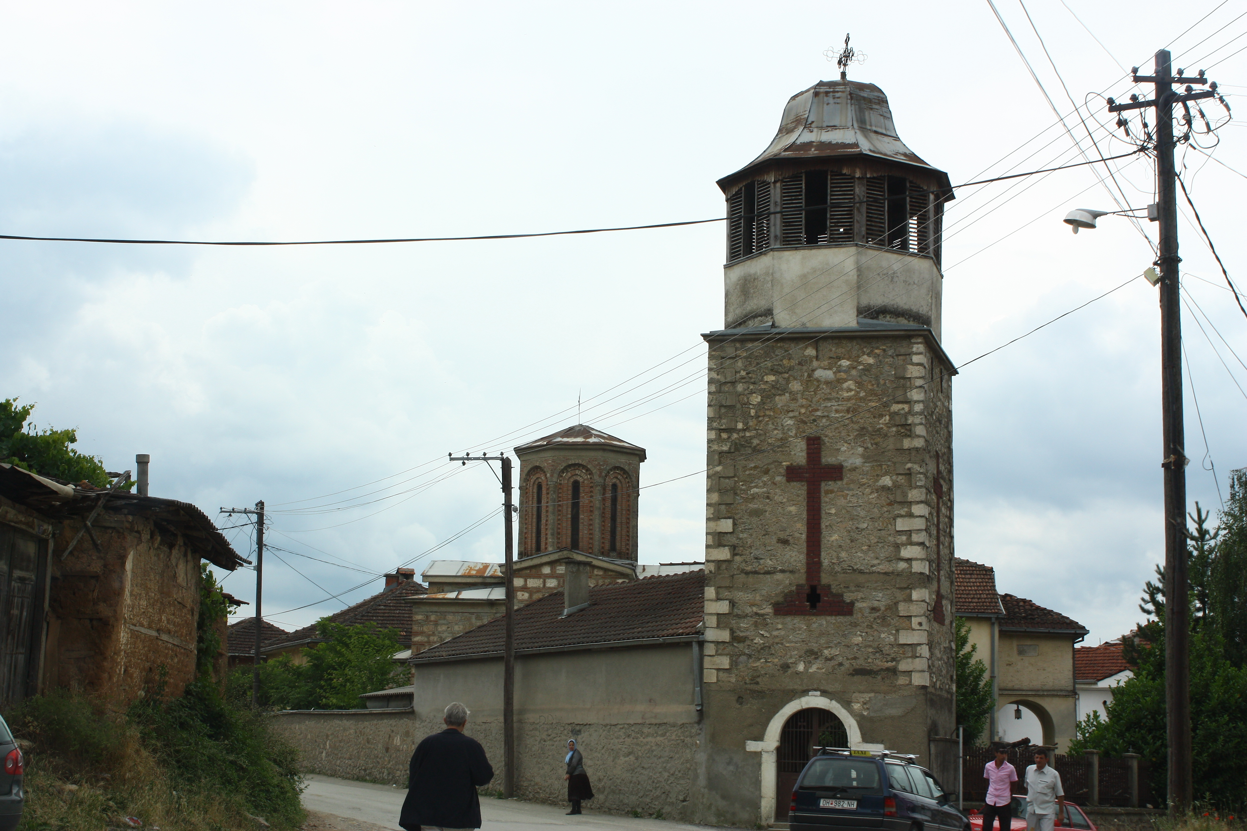 St. Petka Church in Debar, Macedonia